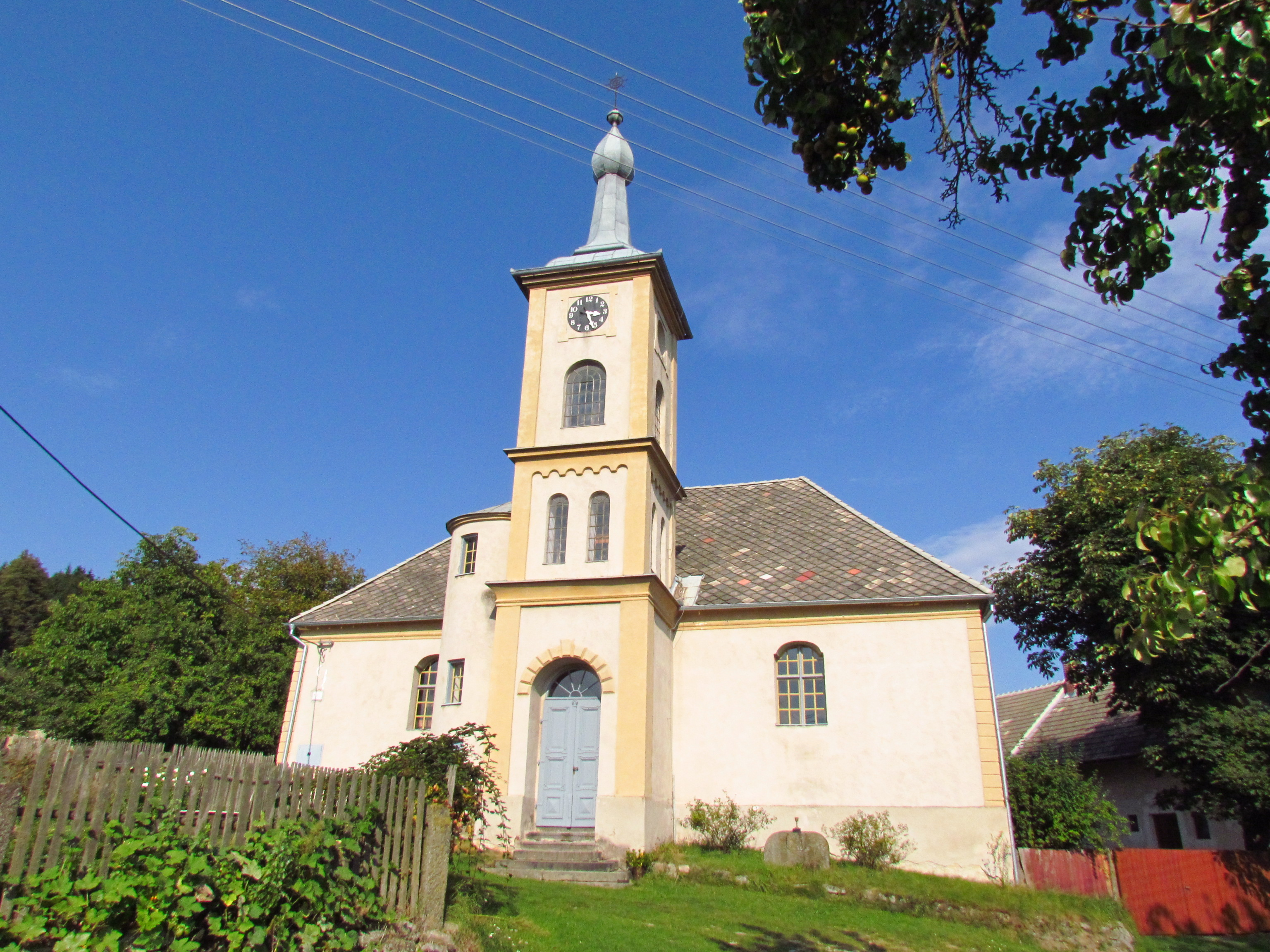 Overview of Evangelical church in Horní Vilémovice, Třebíč District.